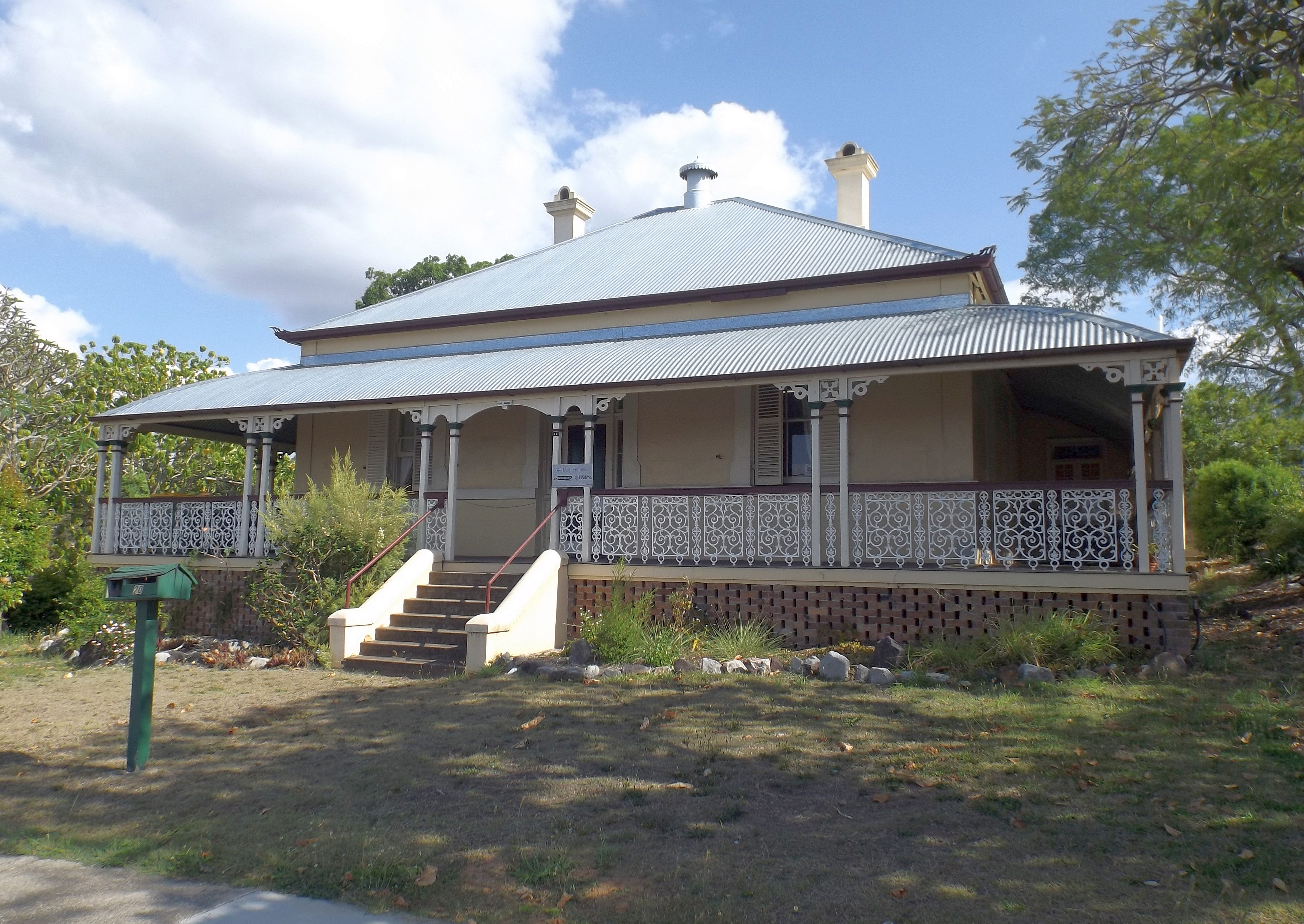 Photo of Keiraville in Ipswich, Queensland, Australia.